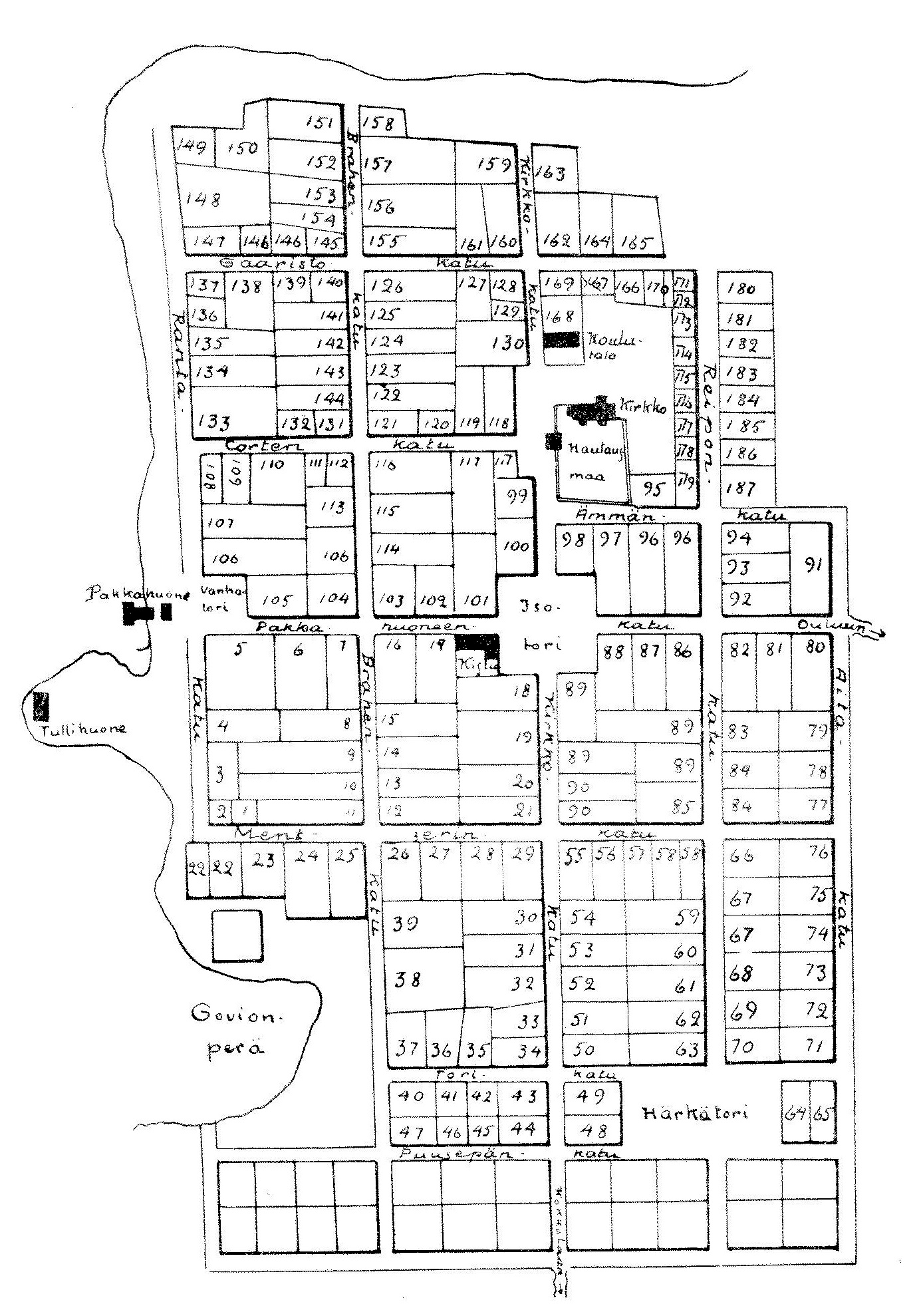 The town plan map of Raahe from 1850-1860's.